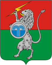 Suvorov rayon (Tula oblast), coat of arms